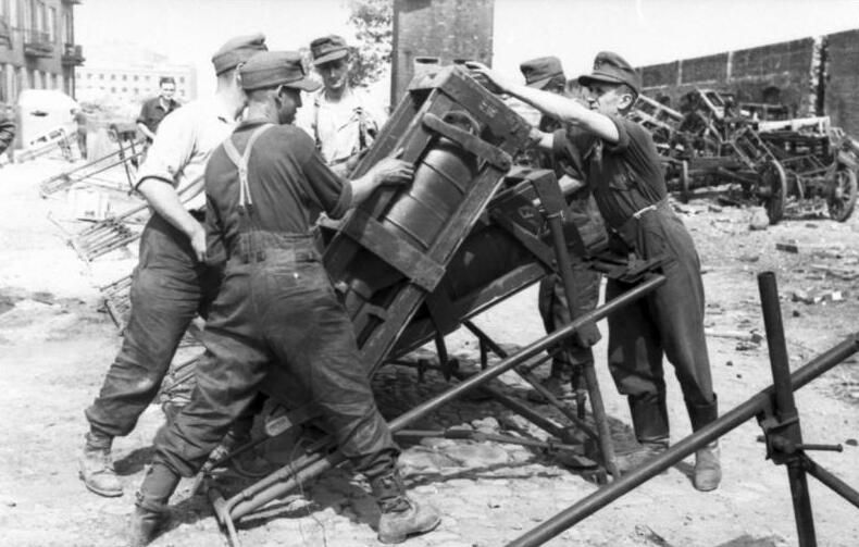 Warsaw Uprising: Loading of 32-35 cm ammunition into Wurfgerät 42 "Nebelwerfer". Photo of 201st Stellungswerfer Regiment bombing Old Town and North Śródmieście district from Żelazna and Żytnia street intersection.